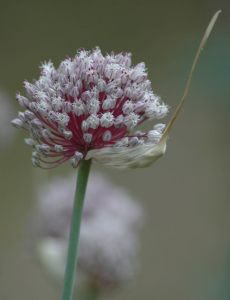 The Flower of a garlic plant